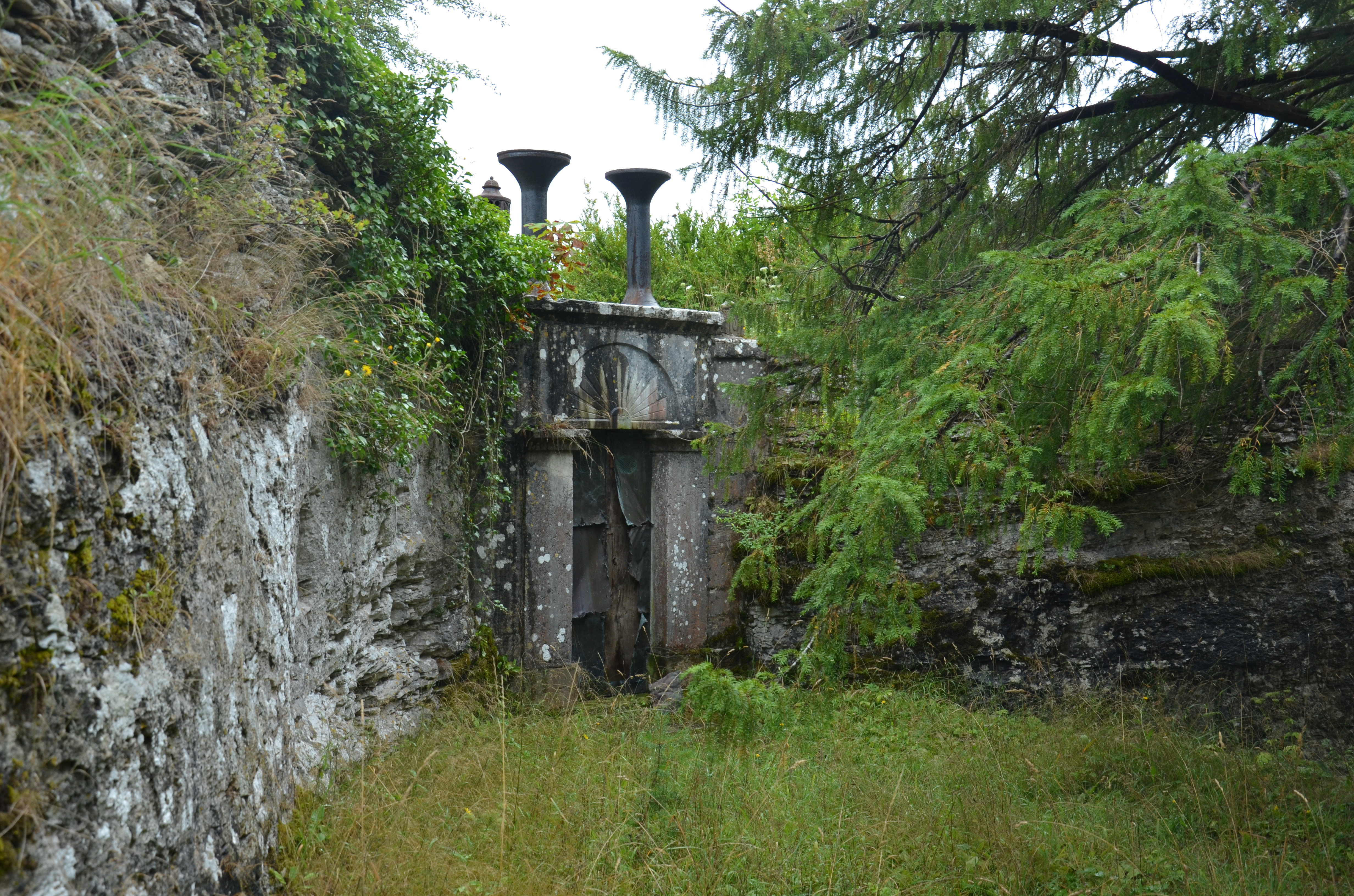 Jacobsberg, Follingbo, Gotland, Sweden